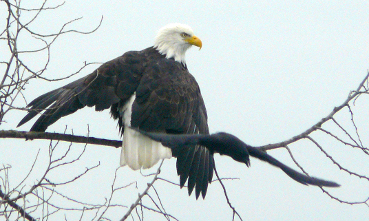 1st of 4: Crows mobbing perched bald eagle. Bremerton, WA, 11/2007. The perch overlooks Bremerton, WA harbor, and the eagle (resident from October-June) rarely gets five minutes of peace, whether perched or in the air. Even though the behaviour is called "mobbing", the crows will attack individually if no others are around. Photographs taken in early November, 2007, when there was no obvious reason (nests, fledglings present) for the behaviour.